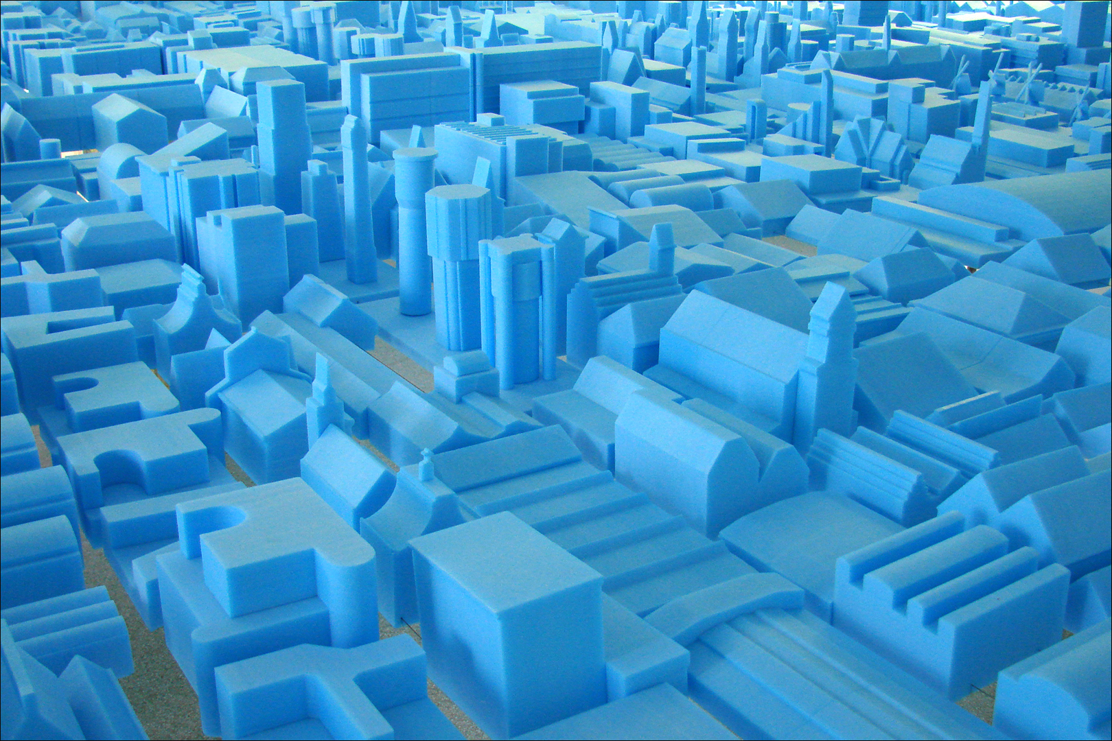 The Netherlands Vacant NL Where architecture meet ideas the installation 'vacant NL' calls upon the dutch government to make use of the enormous potential of inspiring, temporarily unoccupied buildings from the 17th, 18th, 19th, 20th and 21st centuries for innovation within the creative knowledge economy. Mostra Internazionale di Architettura Exposition internationale d'architecture Venezia / Venise "People meet in architecture" du 29/08 au 21/11/2010 le site de la Biennale